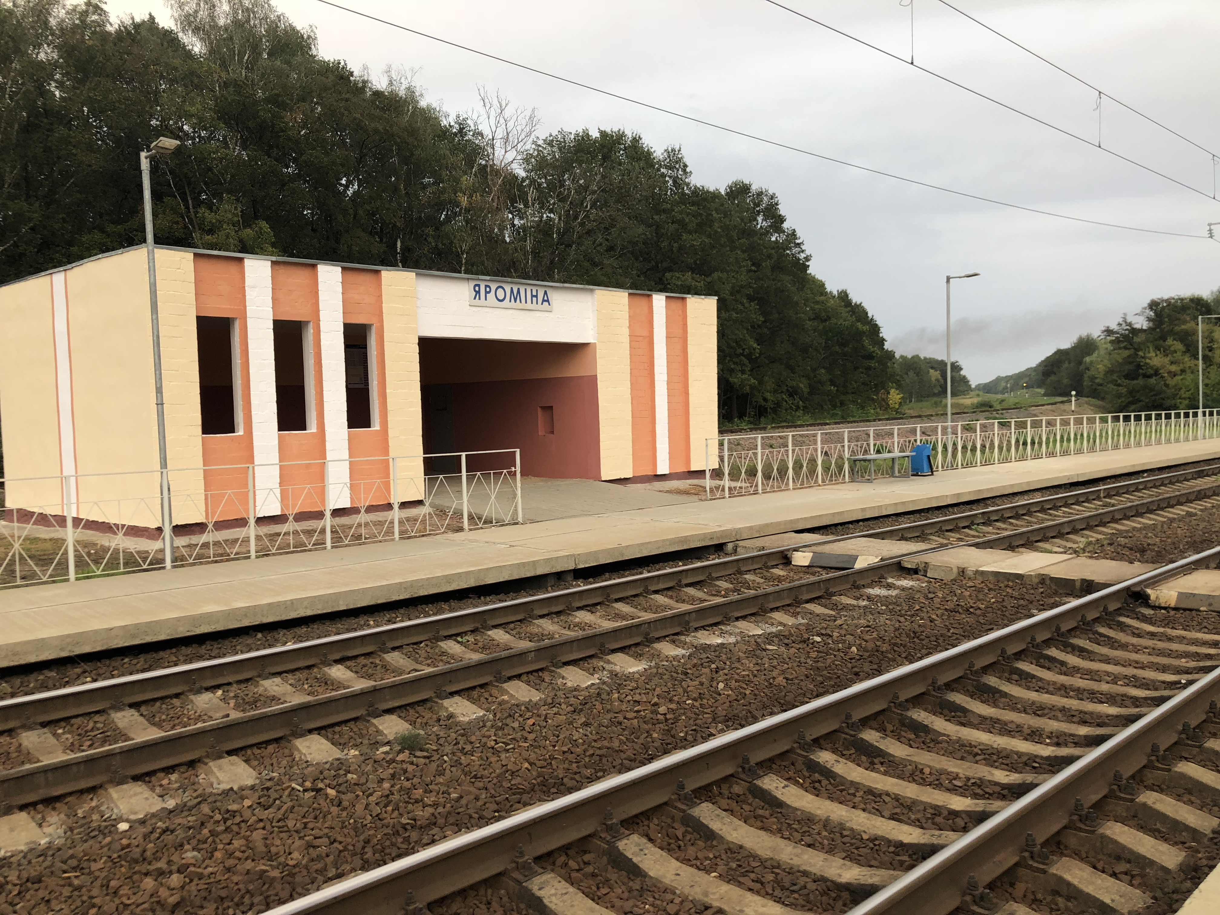 Eremino, Railway Station, Gomel Region, September 2018